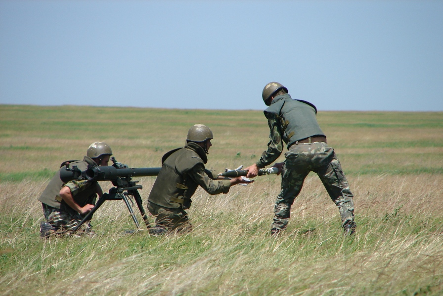 Soldiers from the 151st Infantry Battalion conduct training.